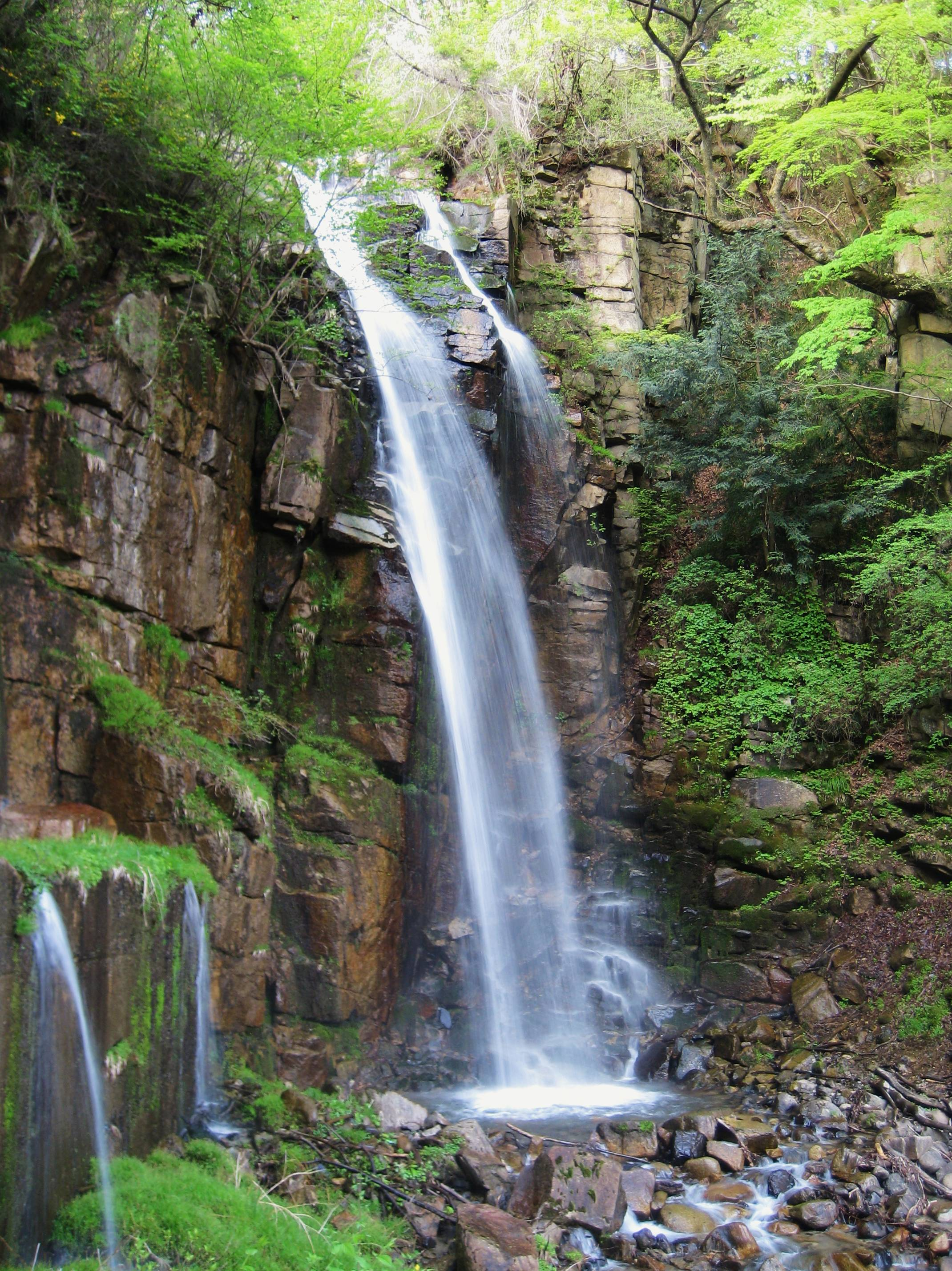 Ononotaki waterfall.